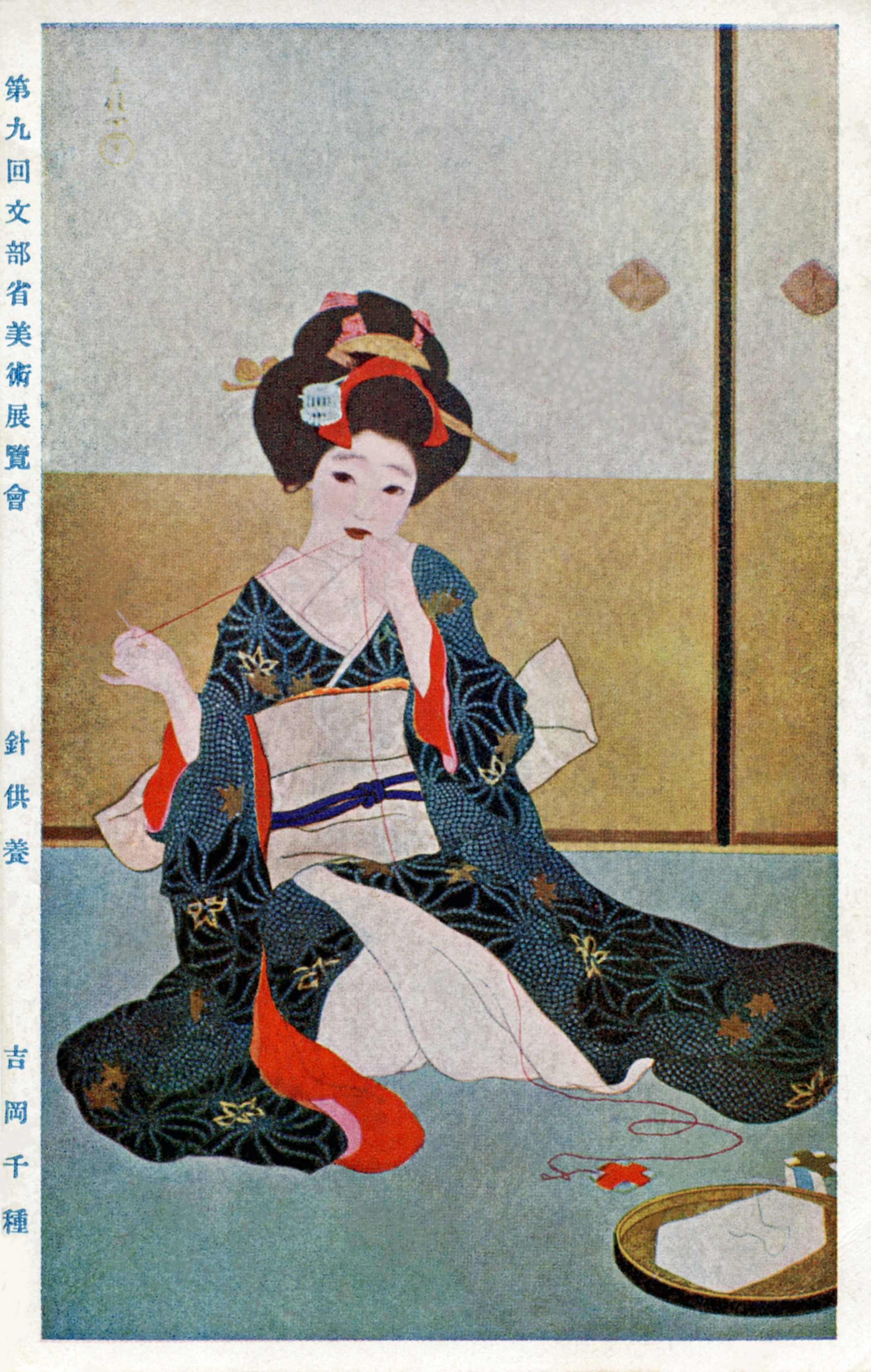 "Hari-Kuyō" from the picture postcard of the art exhibition